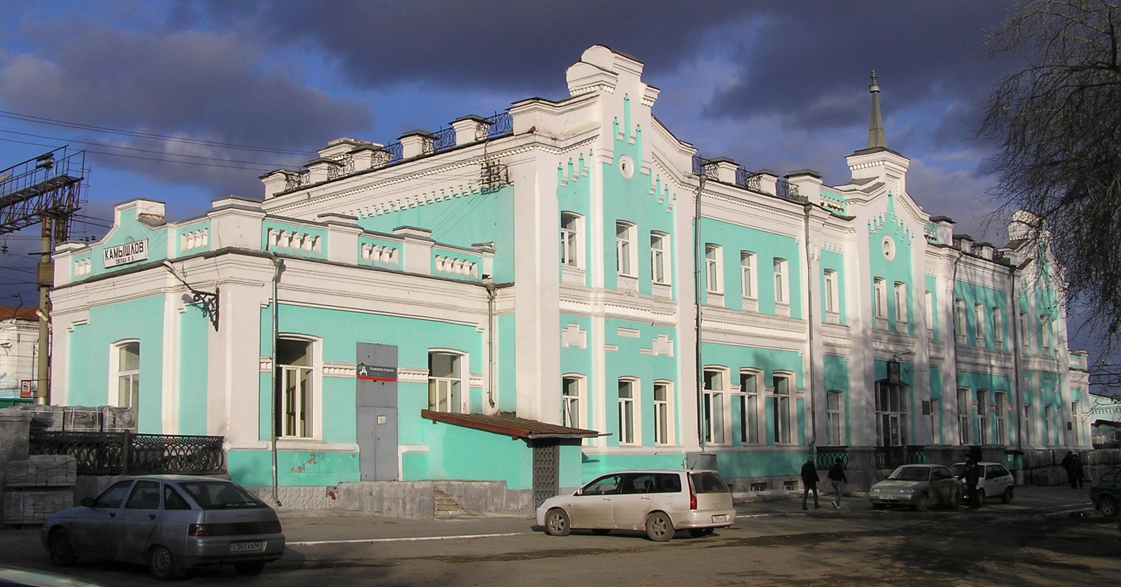 Kamyshlov railway station, Sverdlovsk oblast